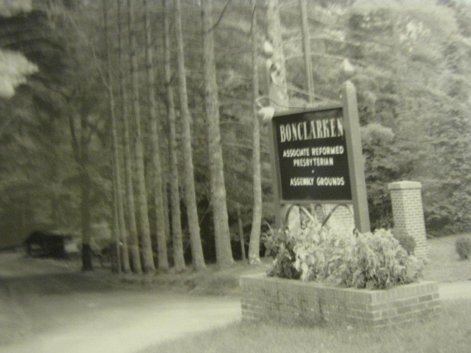 Sign for Bonclarken a while ago at it's main entrance.